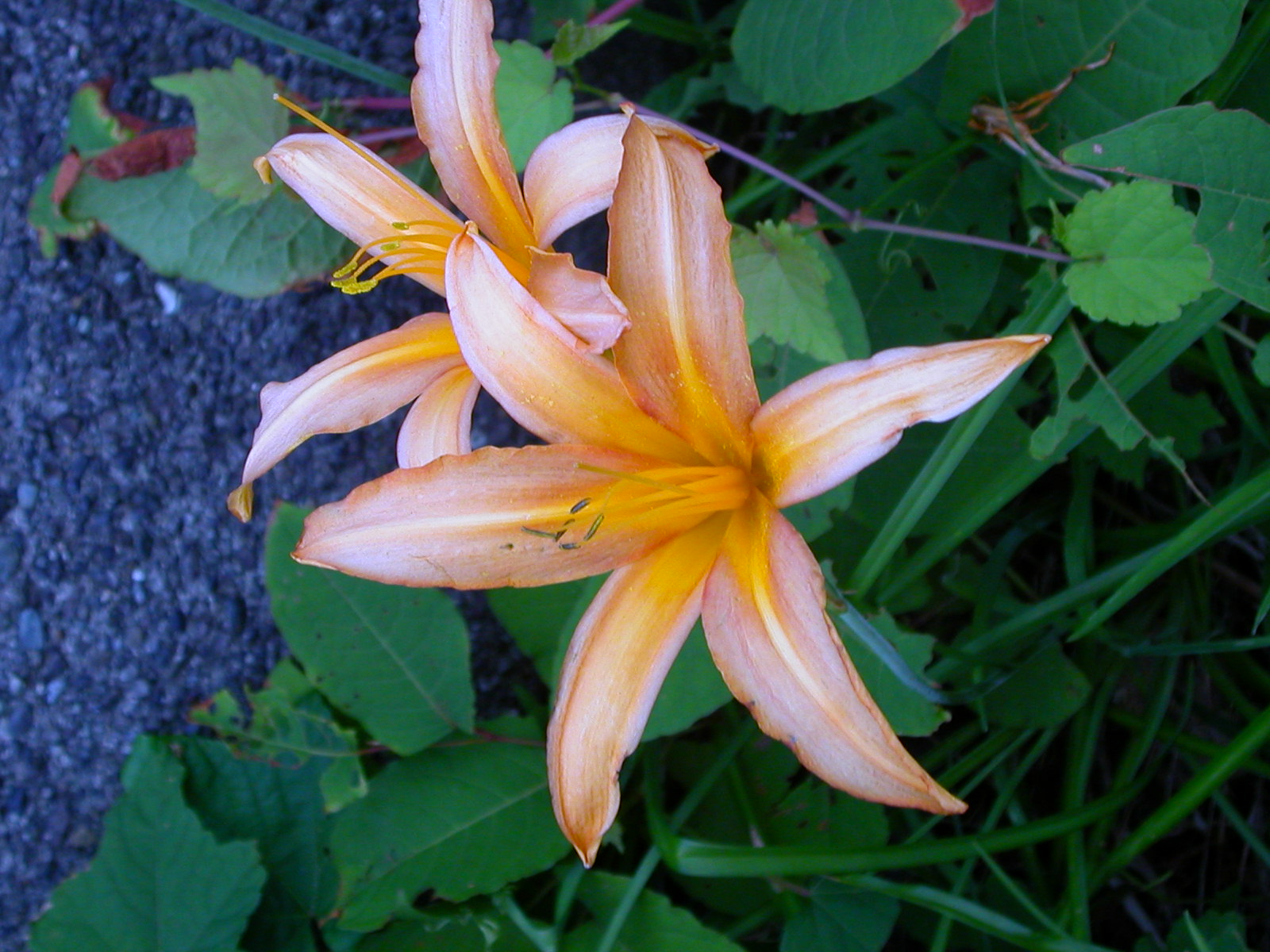 ハマカンゾウ Hemerocallis littorea(静岡県下田市、日本/Shimoda, Shizuoka pref. Japan)